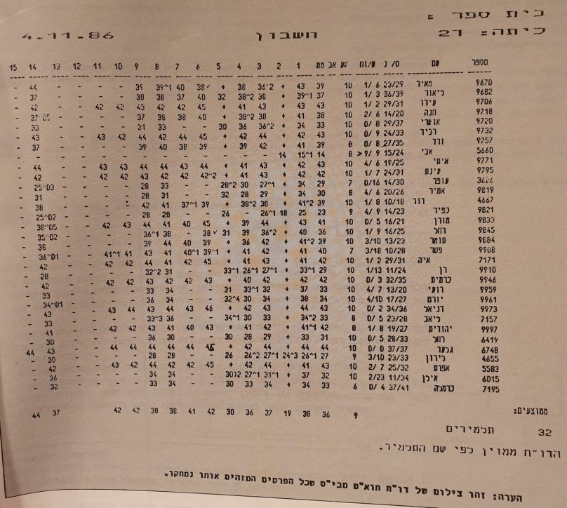 TOAM Output on specific class listing students and their math level